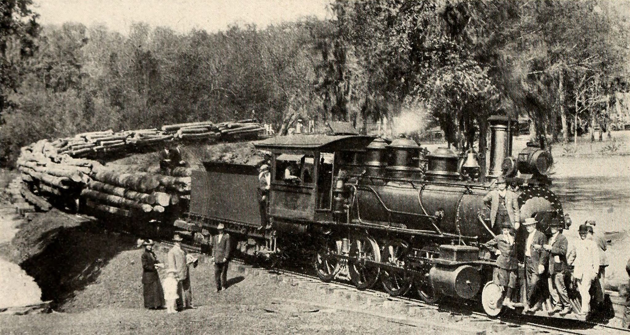 Title: Book of Texas Year: 1916 (1910s) Authors: Benedict, Harry Yandell, 1869-1937 Lomax, John A. (John Avery), 1867-1948 Subjects: Texas Texas -- Economic conditions Publisher: Garden City, N.Y. : Doubleday, Page Text Appearing Before Image: Typical Longleaf Pine of the Texas-Louisiana Region Text Appearing After Image: Cypress Swamp Near Jefferson—Bulletin No. 47 in Bureau of ForestryLong Train at the Deweyville Plant of the Sabine Tram Company Courtesy of C. E. Walden Transporting Longleaf Yellow Pine Logs by Water in Southeast Texas Courtesy of the Sabine Tram Company TURNING THE WATERS 205 considerable. A good many hundreds of acres are being irrigated, and thousands of cattle are being watered fromthese wells. Their permanent possibilities form one of themost interesting subjects for speculation in Texas at thepresent time. The Artesian Belt is another interesting region, south and southwest of San Antonio, to which the above remarks also apply. The laws relating to irrigation are amusing, irritating, incomplete, and imperfect. The code handed down by Saxon forefathers didn't cover irrigation; Thomas Jefferson and John Marshall were silent on this topic. Even that palladium of our liberties, trial by jury, doesn't seem to get anywhere, though proper irrigation of a jury has oftenbrought peculiar result